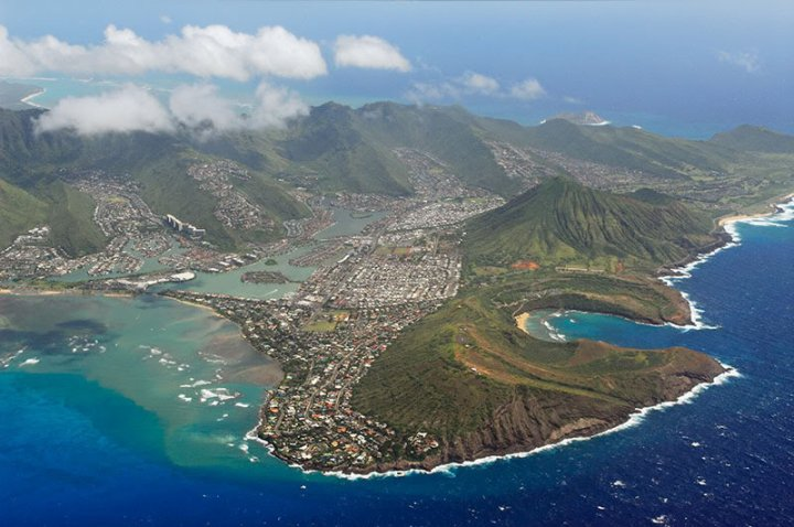 Aerial of Hawaii Kai, Oahu, Hawaii